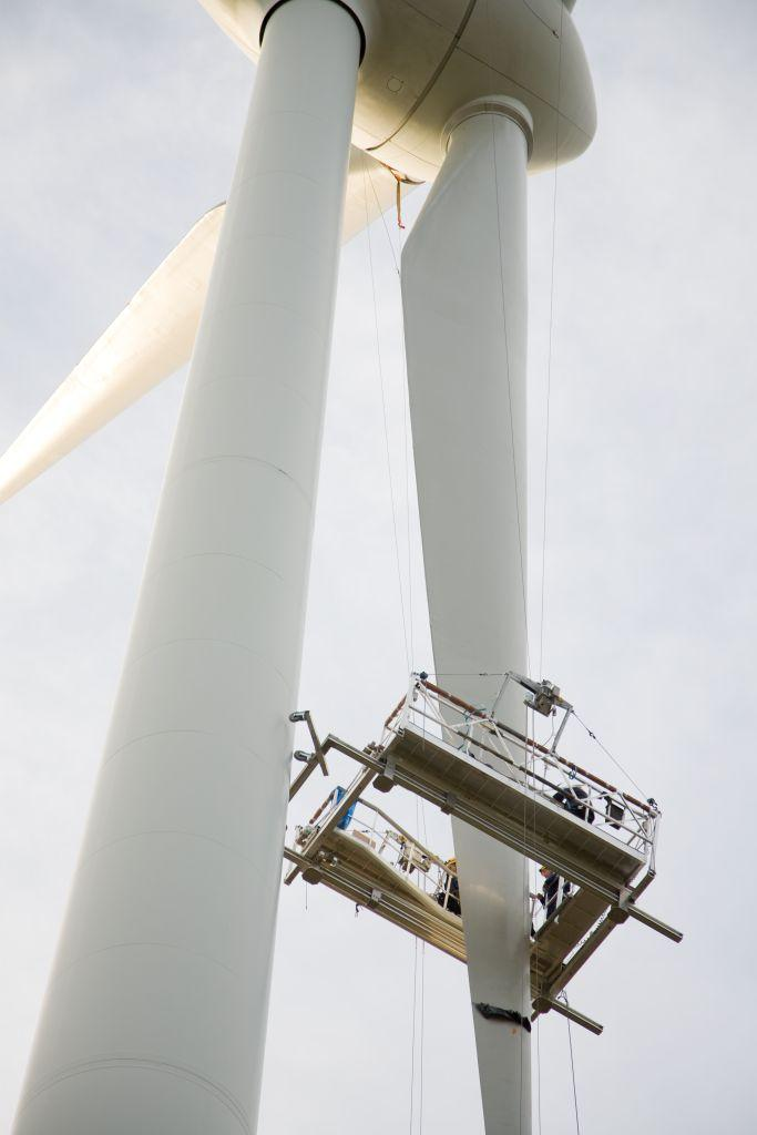 To light up the Siemens Superstar, technicians had to bond around 9,000 LEDs to the 30-meter-long rotor blades of the Fröttmaning wind turbine. The LEDs provide brilliant light yet save energy: A normal 40-watt light bulb can be replaced by an 8-watt compact fluorescent lamp or by an 8-watt LED lamp – and save 80 percent energy. Lighted with LEDs, the Superstar is a shining symbol for green innovations.